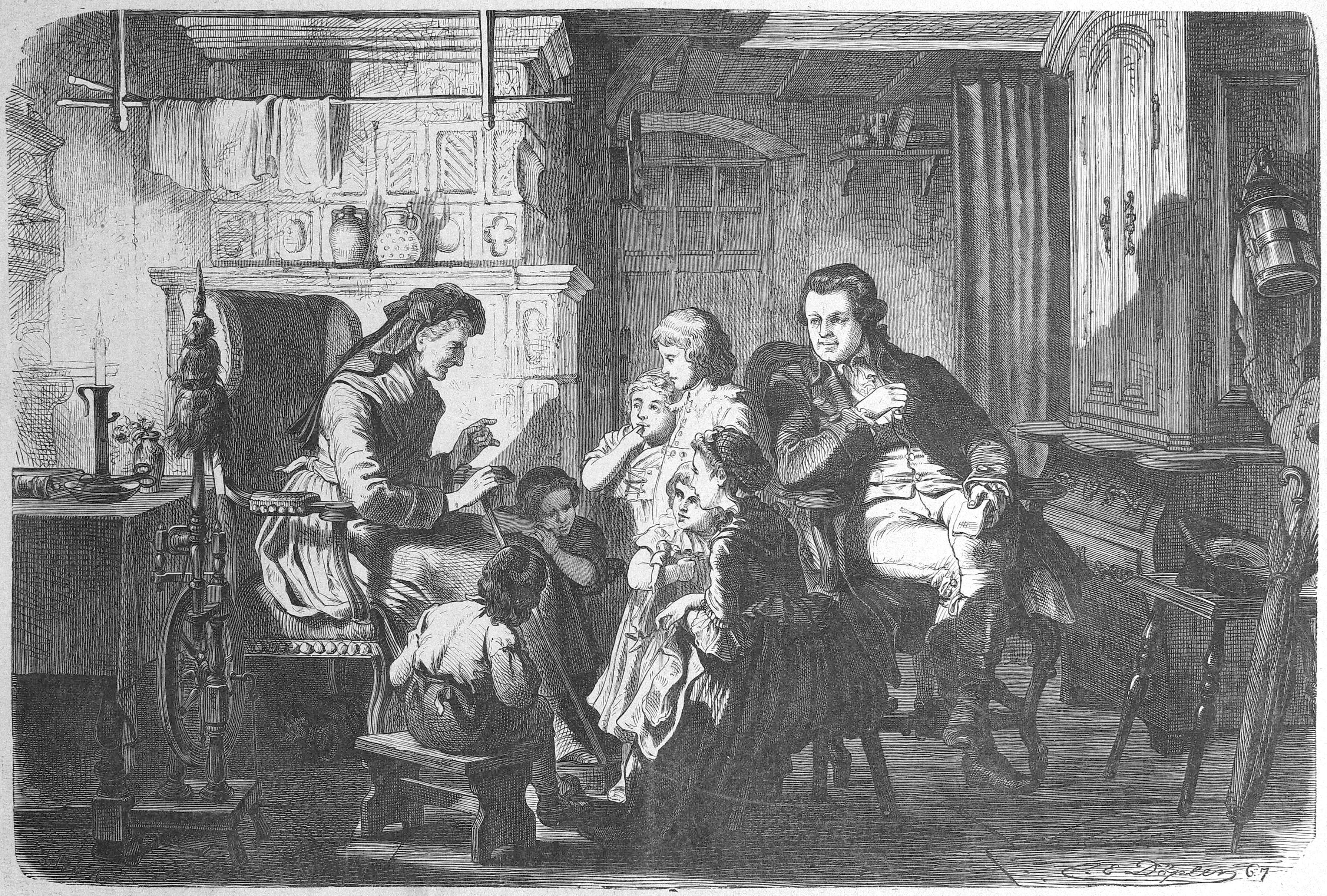 caption: "Musäus sammelt Märchen. Originalzeichnung von C. E. Döpler."